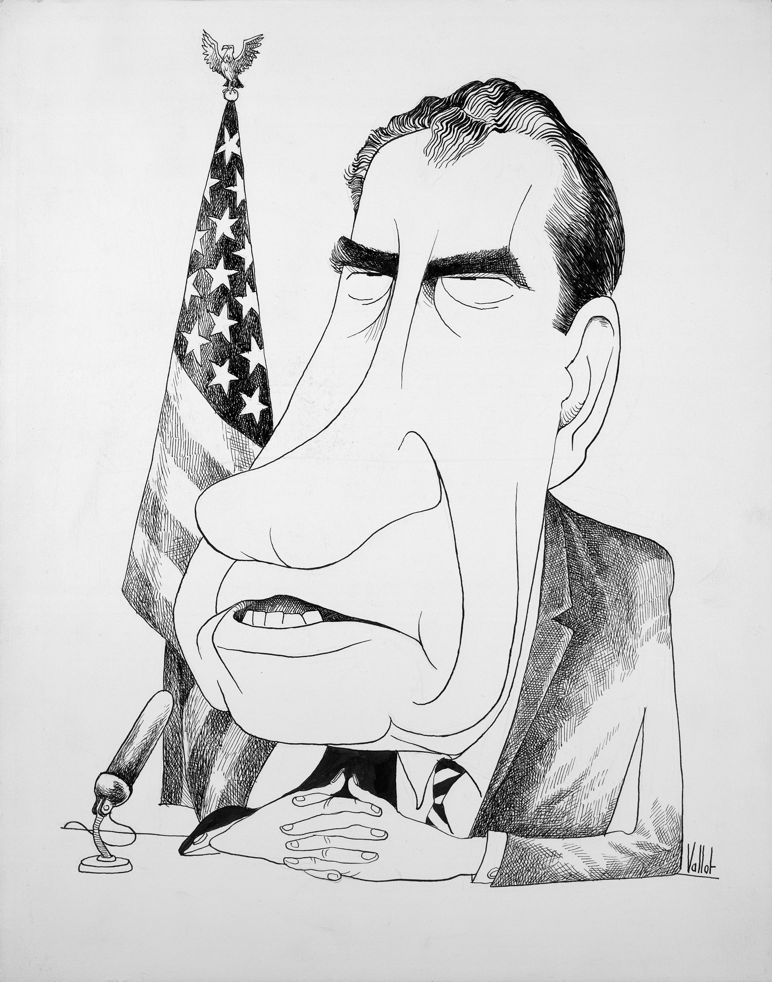 Caricature of President Richard M. Nixon with folded hands, seated before a microphone in front of an American flag, showing the president making one of his talks to the American people.